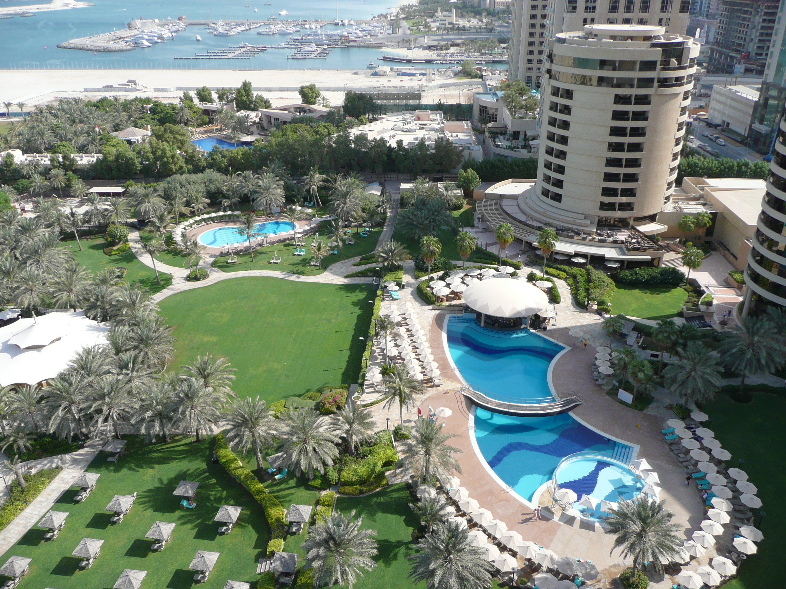 Dubai Marina and surrounding gardens from a tower room of Le Royal Méridien Beach Resort and Spa, Dubai Marina, Dubai, United Arab Emirates.